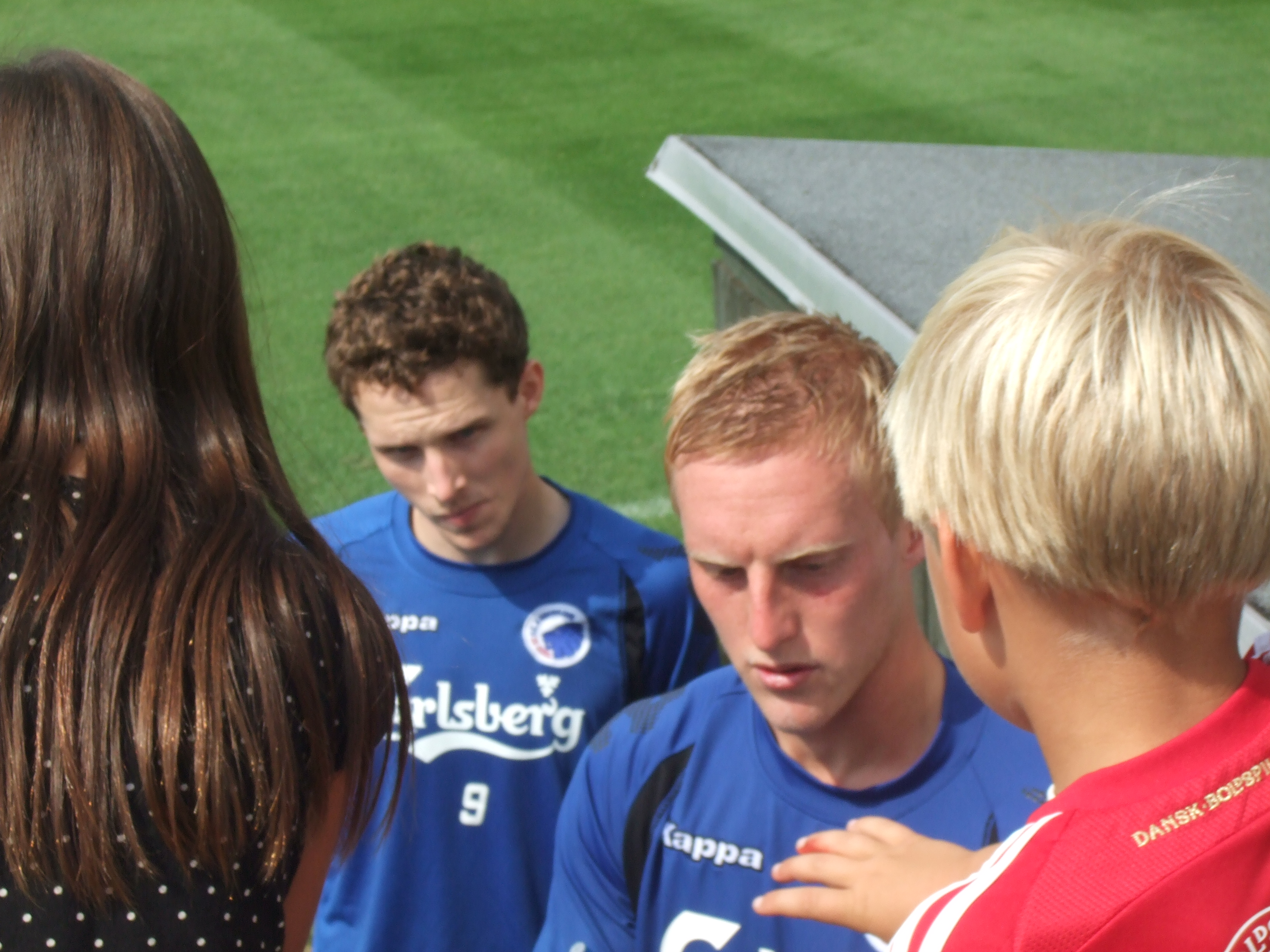 F.C. København defender Peter Larsson signing autographs after practice August 7th 2008. Picture is taken at the FCK training grounds at Peter Bangs Vej.